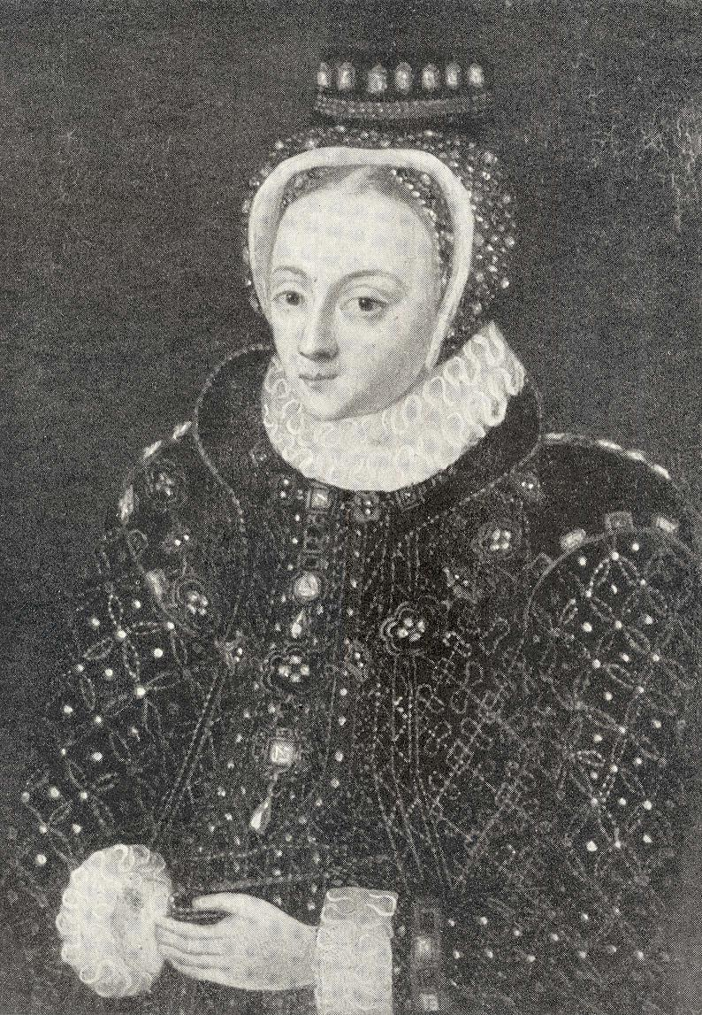 Queen Gunnilda of Sweden (1585) Gunilla Bielke